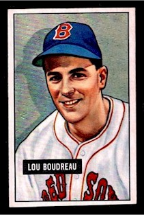 1951 Bowman baseball card of Lou Boudreau